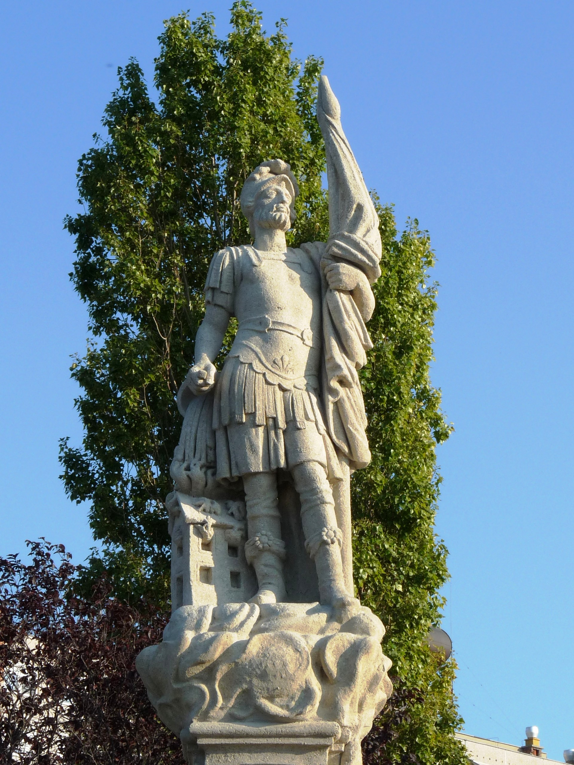 Statue of Saint Florian. Part of the Votive altar in Óbuda. (Budapest, District III, Flórián Square)